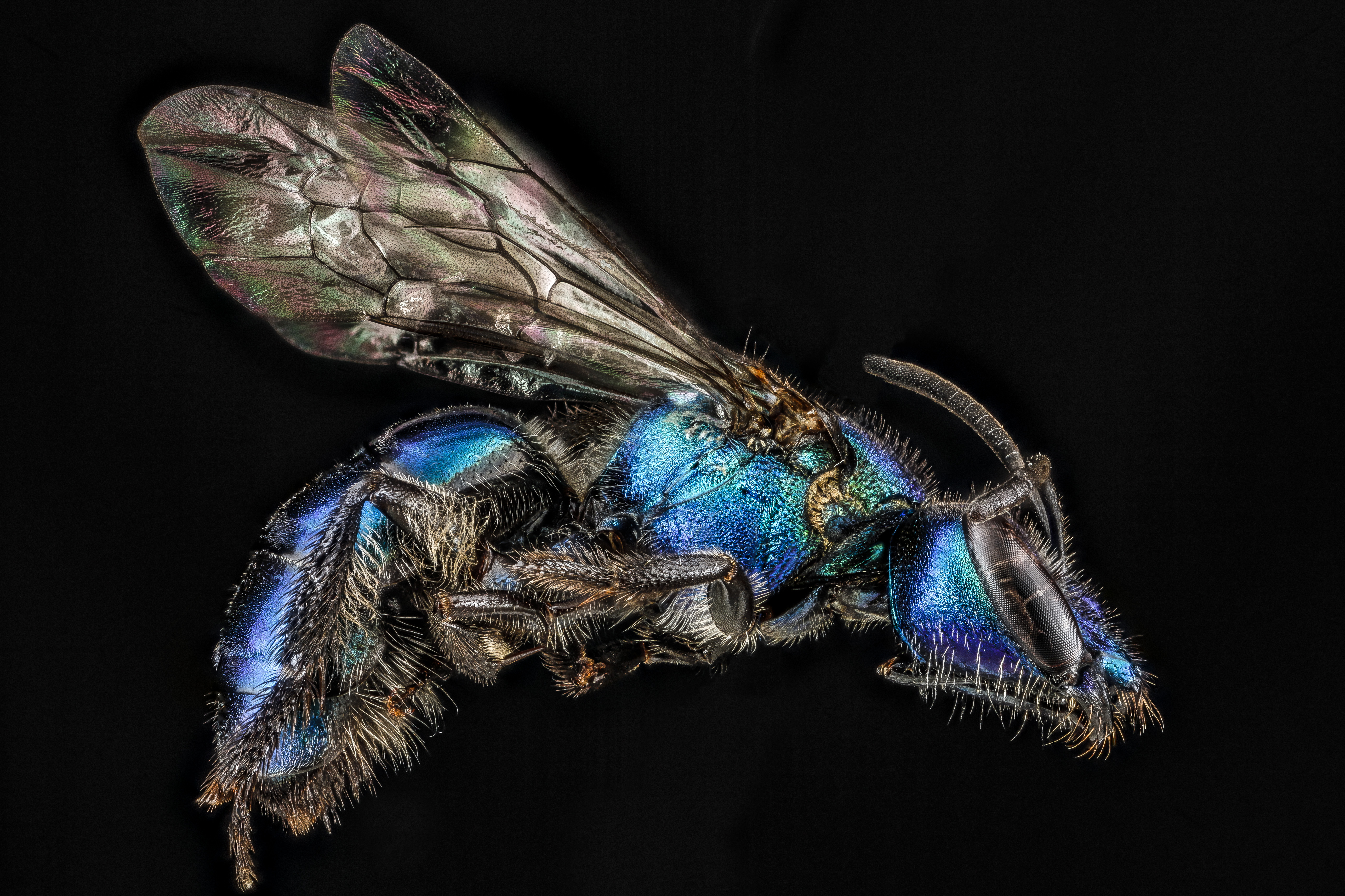 Augochlora regina, female, March 2012 Dominican Republic, formerly A. elegans